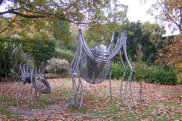 Millennium Bugs, Durham Botanic Gardens